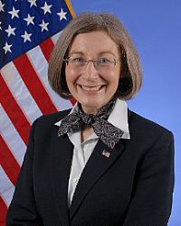 Anita K. Blair